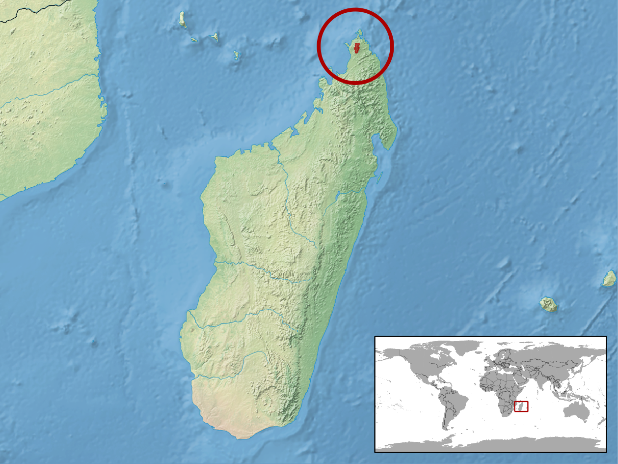 geographic distribution of Calumma amber (Native: Madagascar)